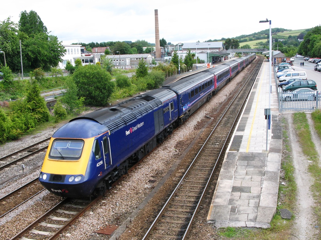 43156 leads a London Paddington to Newquay express non-stop through the middle roads at Totnes station, Devon, England.